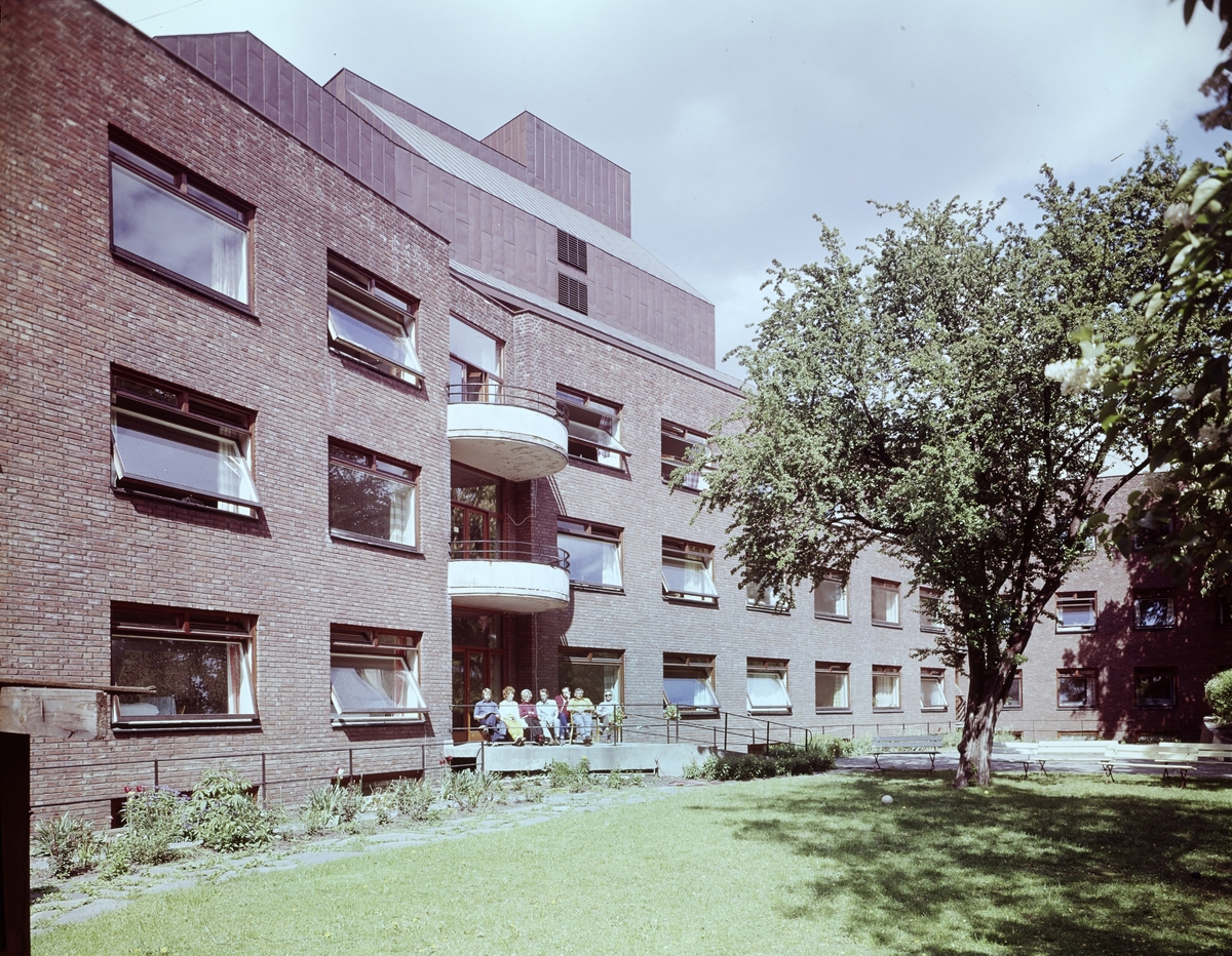 The Oslo Hospital for rheumatic diseases, Akersbakken 27, by architect Lilla Hansen, erected 1938, demolished 2017.